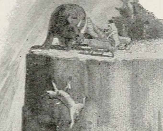 Cave hyenas attacking woolly rhino sketch by Howard V. Brown